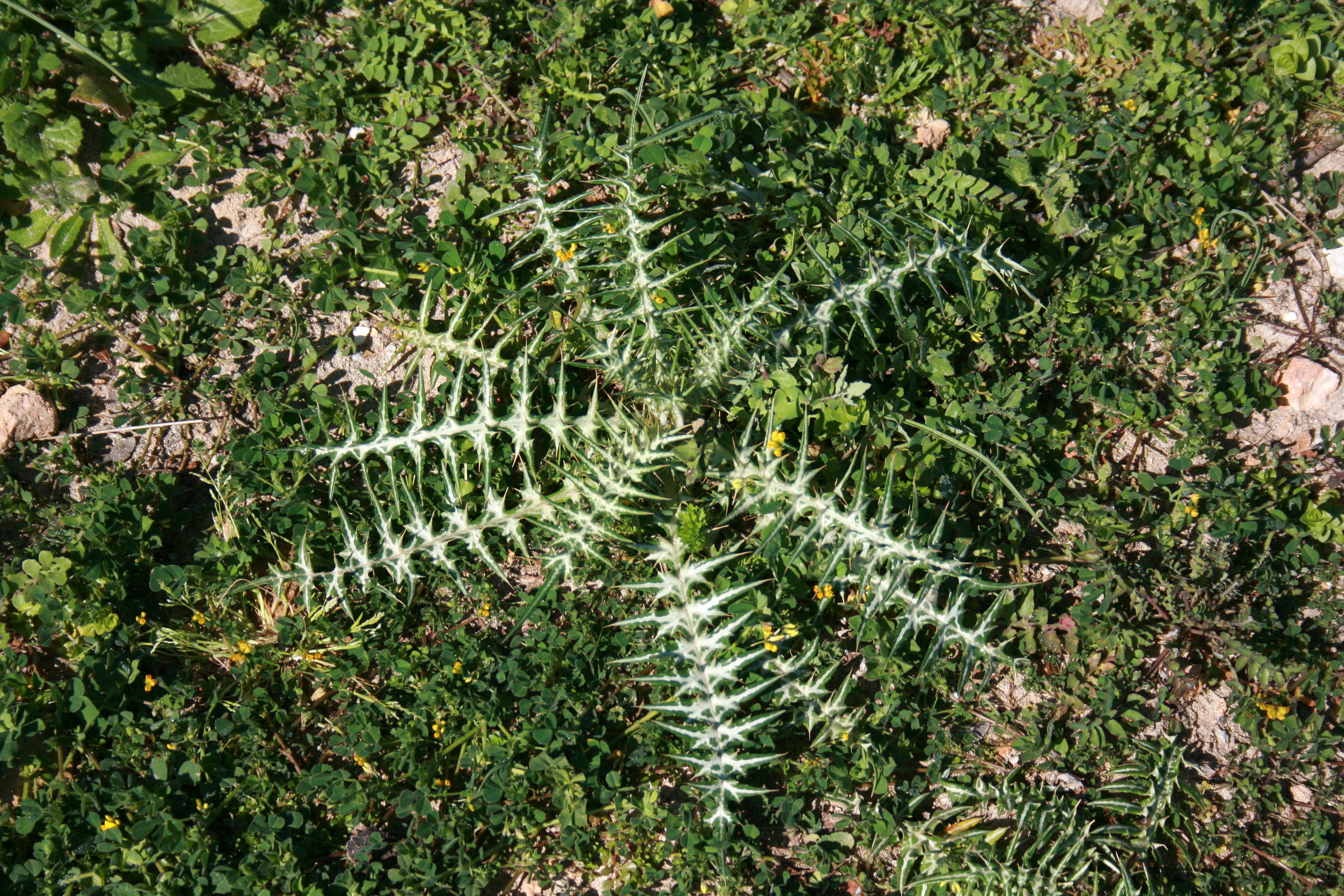 Galactites elegans growing along the Cami de Manresa in Alcúdia, Mallorca